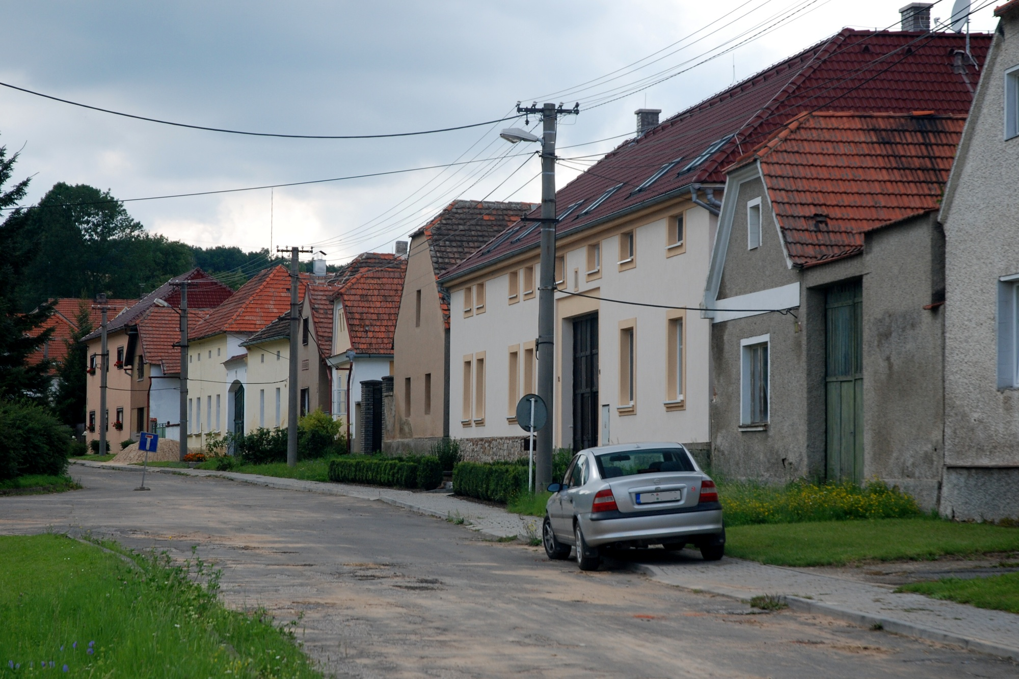 This photograph was taken within the scope of the third year of the 'Czech Municipalities Photographs' grant. Železná - pohled do jedné z ulic